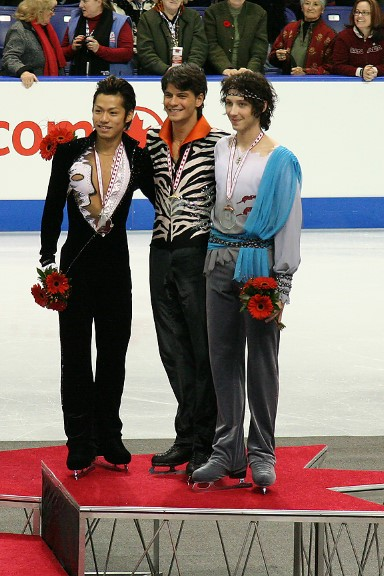 The men's podium at the 2006 Skate Canada International. From left to right: Daisuke Takahashi (silver); Stéphane Lambiel (gold); Johnny Weir (bronze).